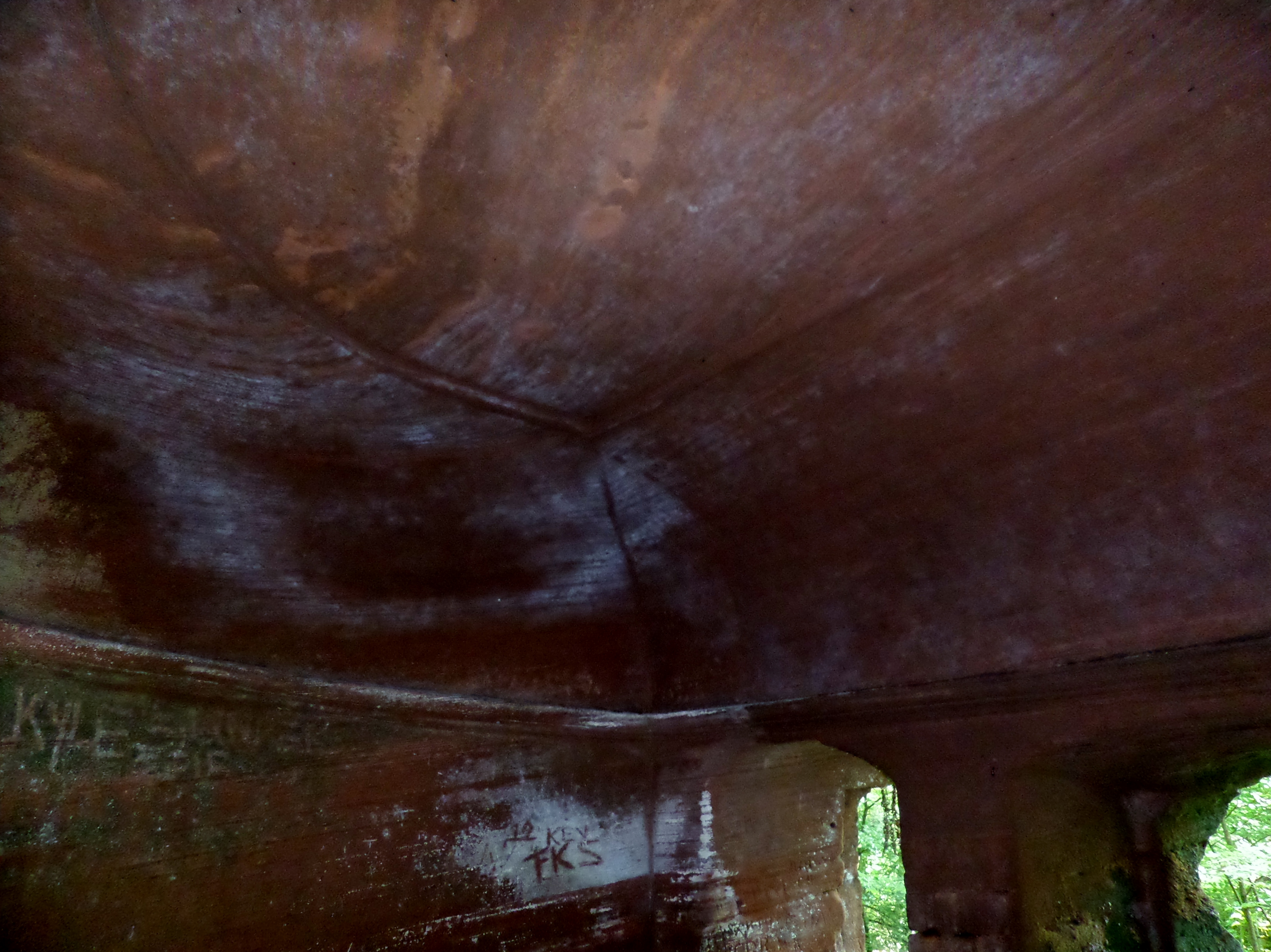 Deer Cave interior, Dippol Burn, Auchinleck Estate, East Ayrshire, Scotland. An 18th century summerhouse visited by Samuel Johnson in 1773.